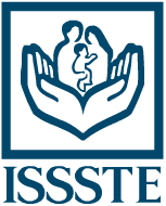 Logo for Institute for Social Security and Services for State Workers